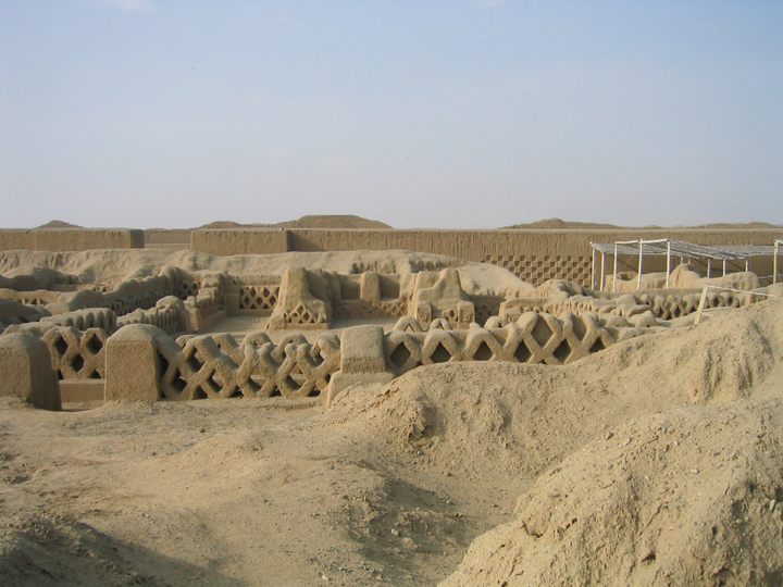 View of Chan Chan archaeological site, Peru. Photo taken and uploaded by J. Stander